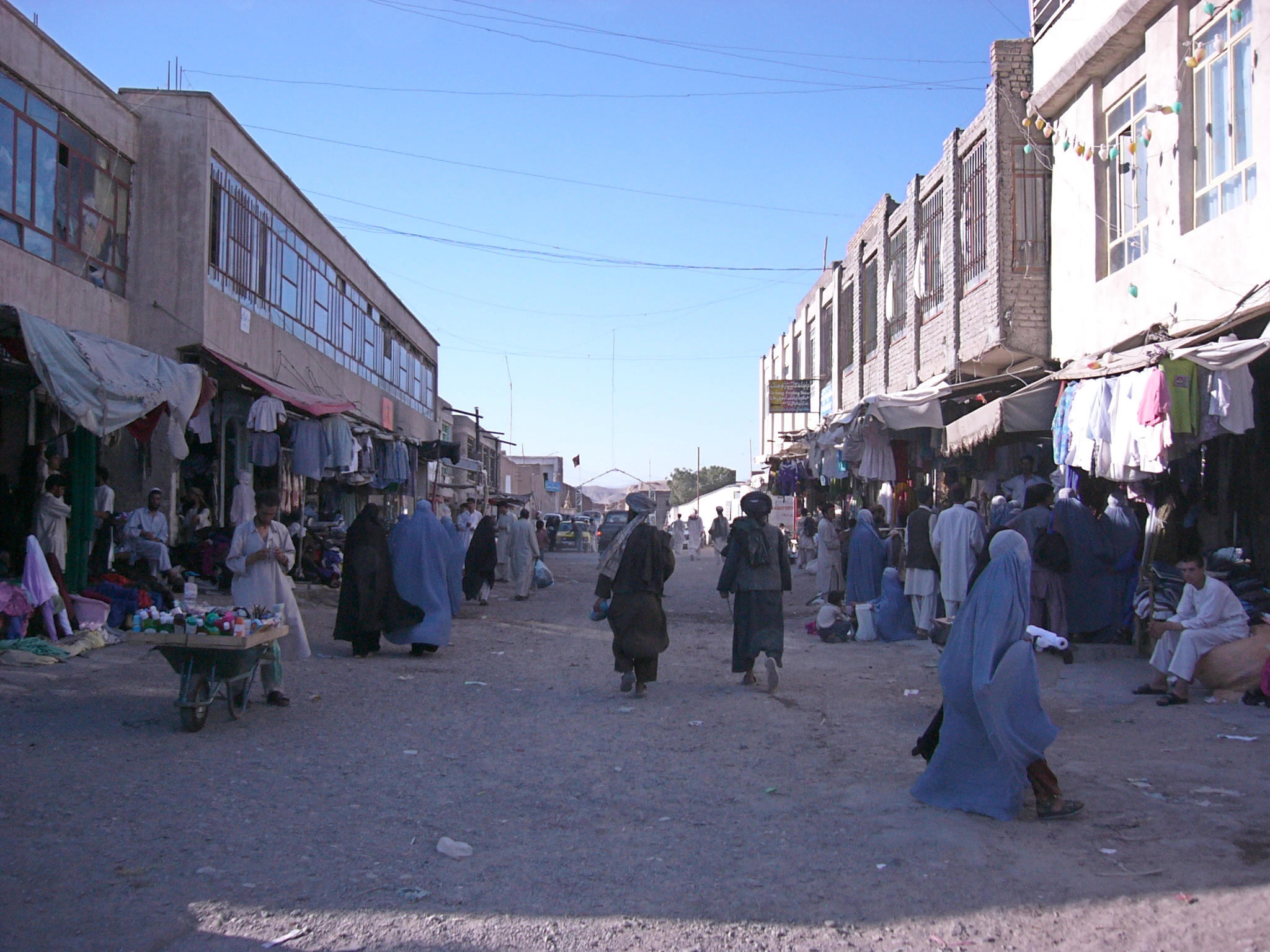 Clothes bazaar in Herat, Afghanistan